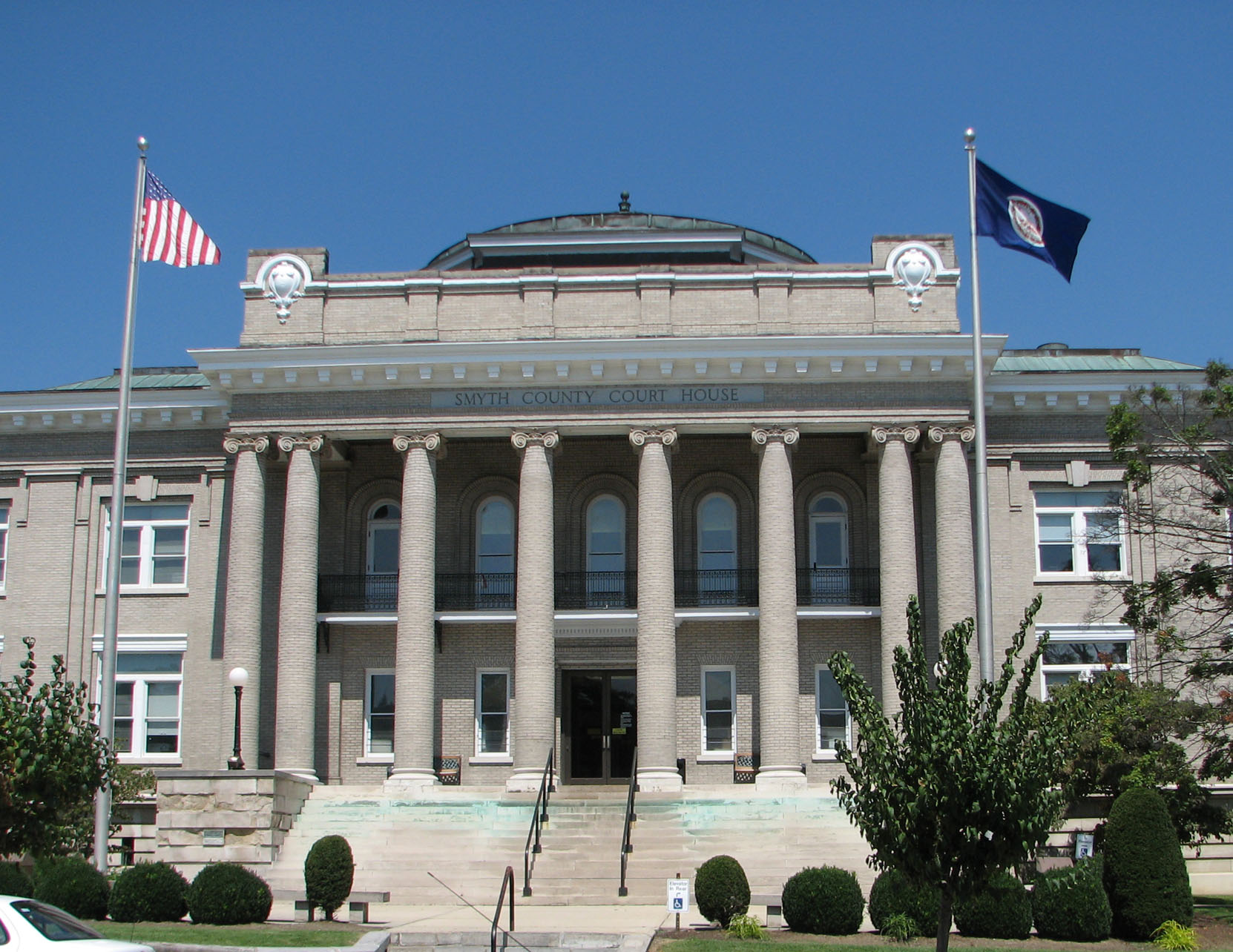 Photograph of Smyth County Courthouse in Marion, Smyth Co, Virginia. Taken by RebelAt on August 23rd, 2006.